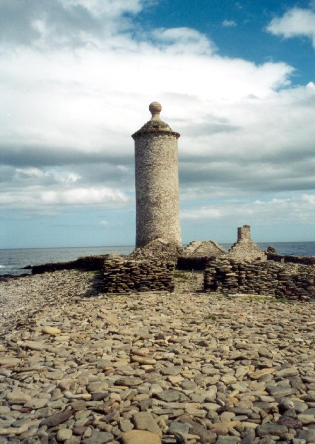 Old Lighthouse, North Ronaldsay. Although known as the 'Old Lighthouse', it has not contained a light for many years -- but it is visible from a long way away nevertheless.